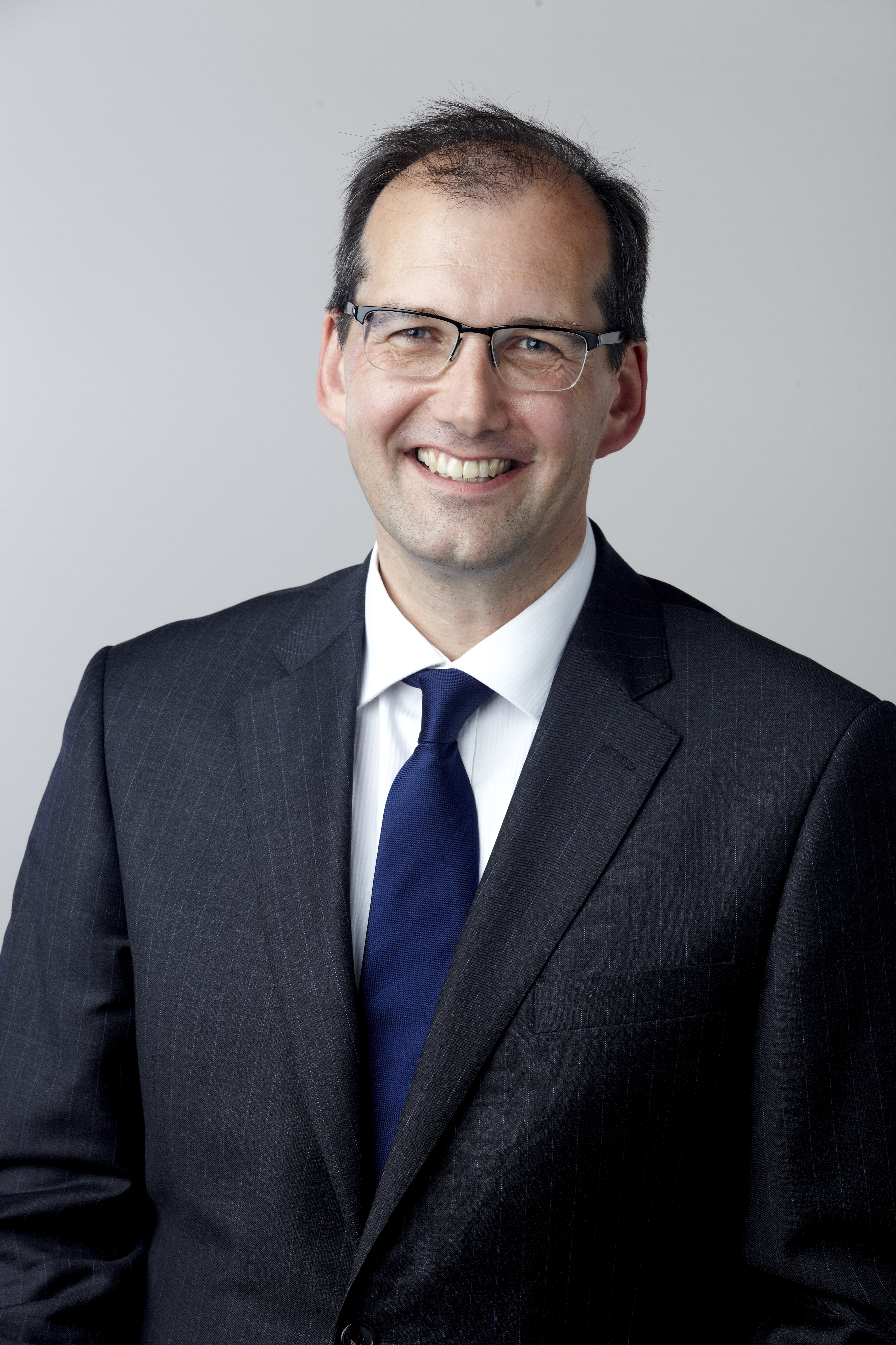 Professor Paul Midgley FRS, Royal Society Fellow elected 2014 Attribution: The Royal Society